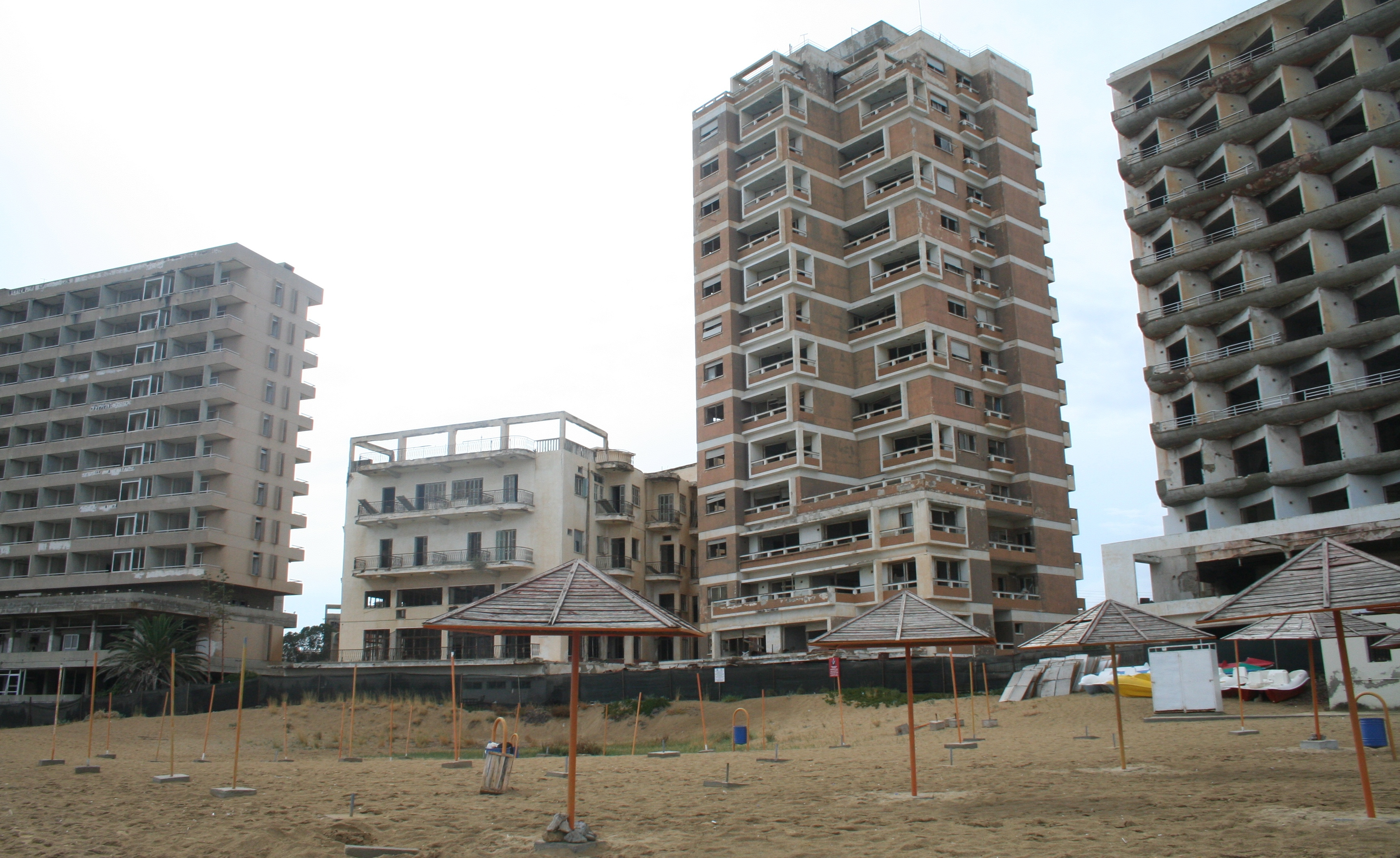 view from the beach